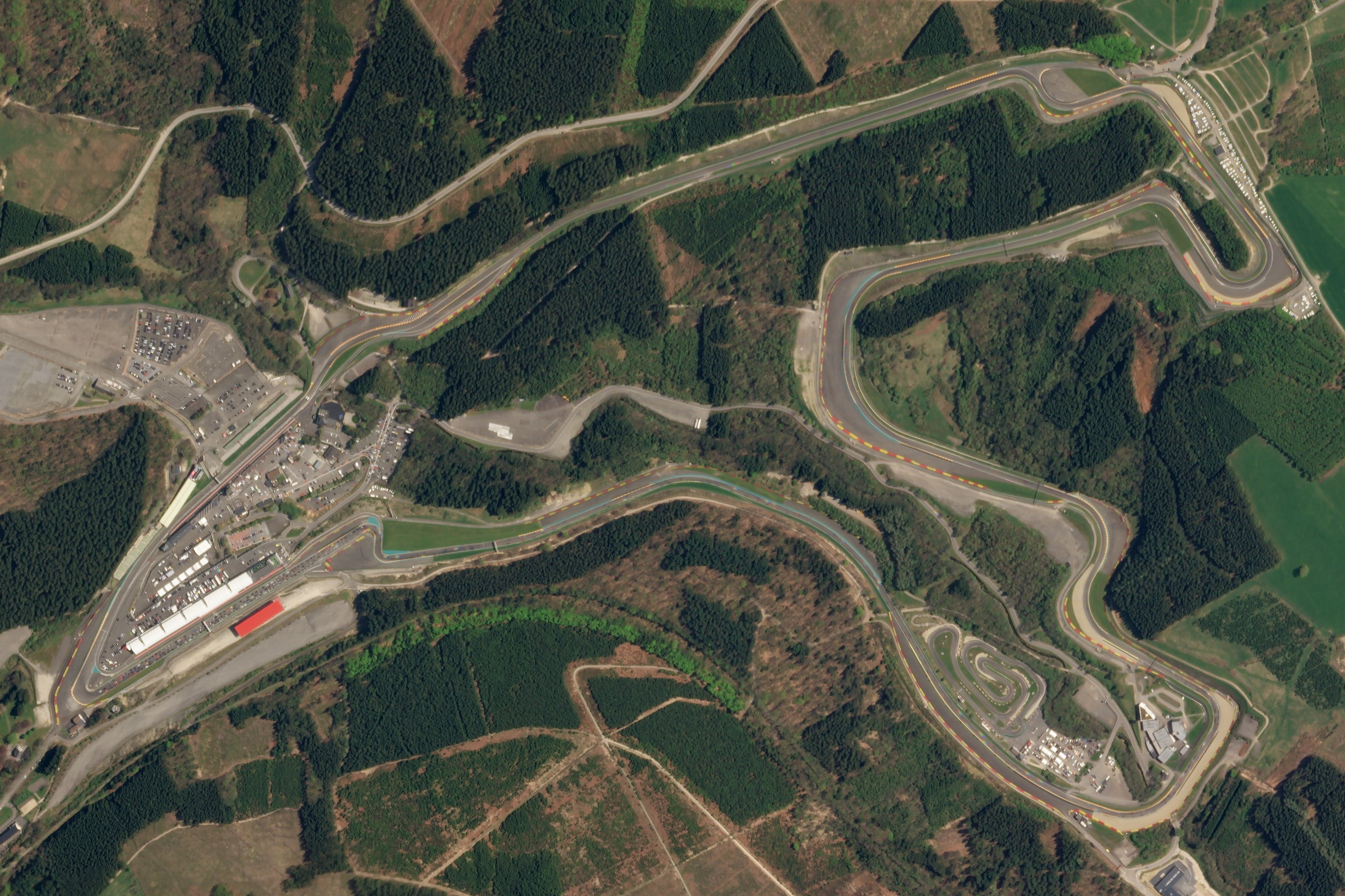 Circuit de Spa-Francorchamps, a motor-racing circuit located in Stavelot, Belgium that is the venue of the Formula One Belgian Grand Prix and the Spa 24 Hours and 1000 km Spa endurance races. Image taken on April 22, 2018, by a Planet Labs SkySat satellite.